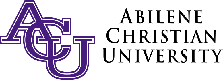 Abilene Christian University logo